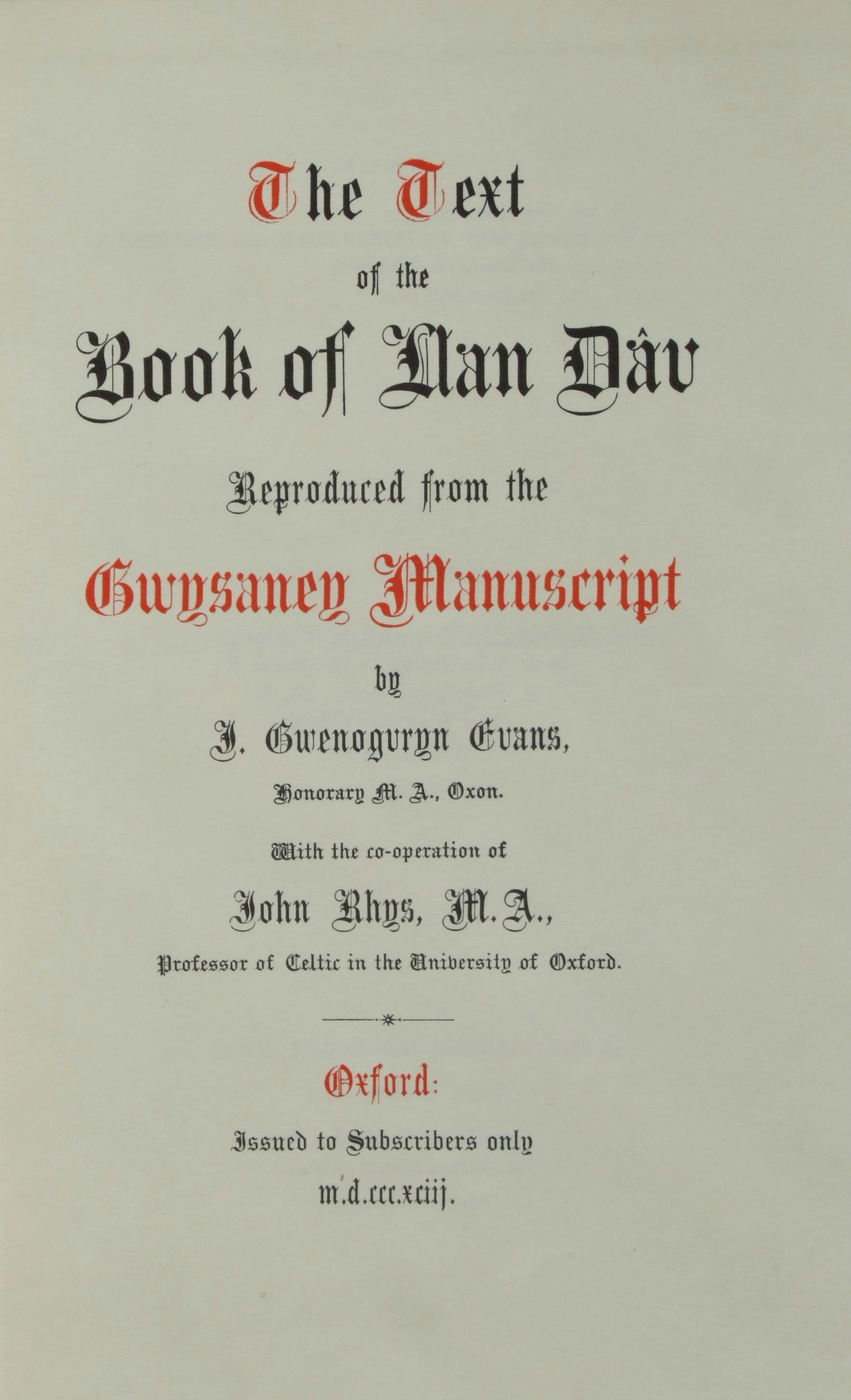 Title page of the diplomatic edition of the early medieval Welsh manuscript Llyfr Llandaf (The Book of Llandaff/Liber Landavensis) published by Welsh scholar J. Gwenogvryn Evans in 1893.